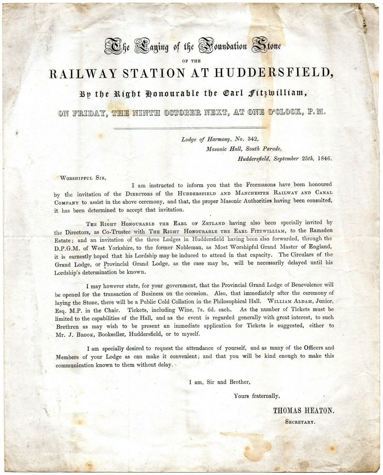 Freemasons' circular regarding the laying of Huddersfield Station foundation stone by the Earl Fitzwilliam. The text in this image should be transcribed and included in the description on this page. See also Transcription . The Google OCR tool may be of use in transcribing images.